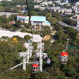 Cable cars in Ocean Park, Hong Kong 香港海洋公園吊車 Photo taken by myself (User:Sl) on November 2004.